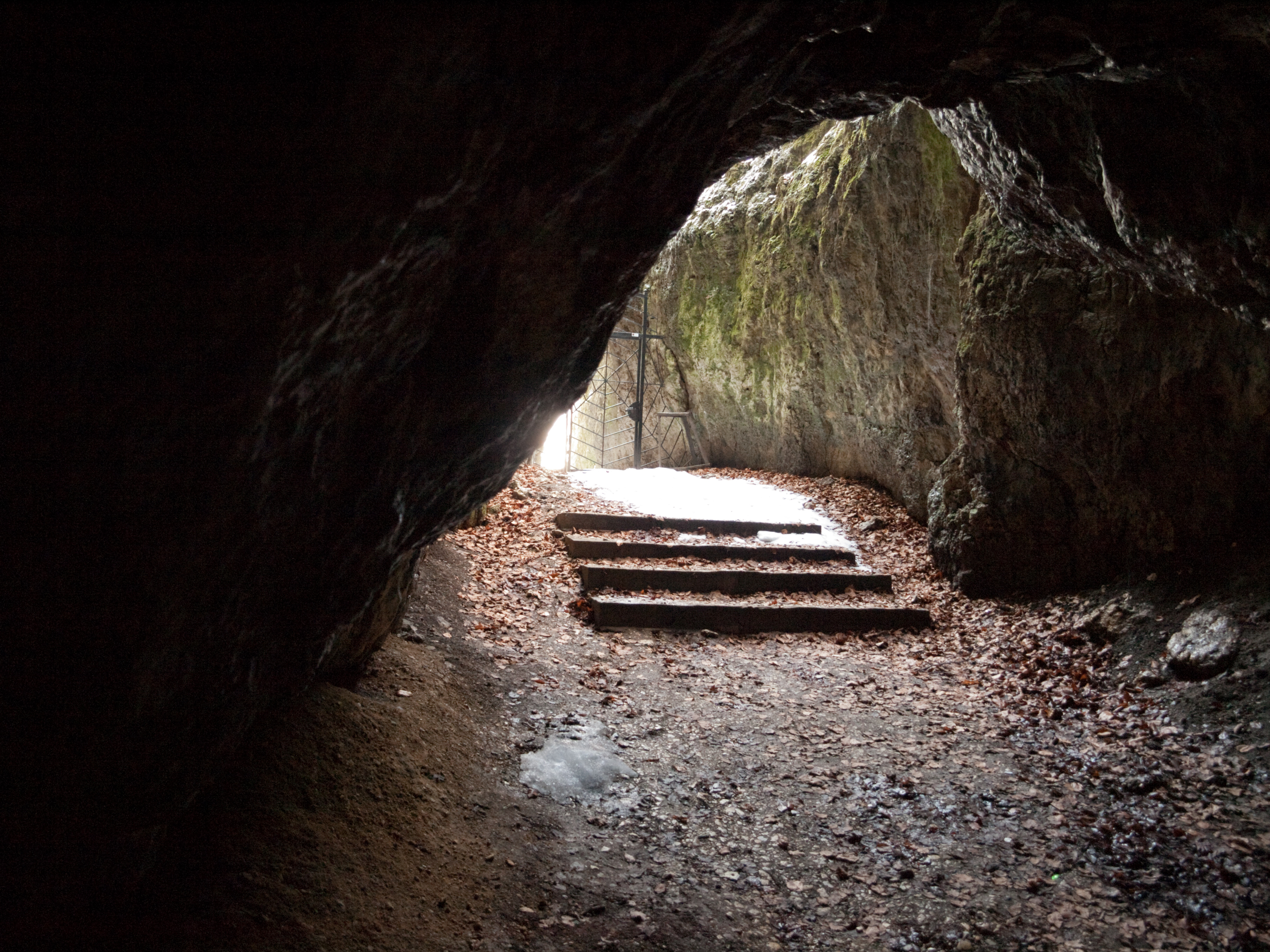 The entrance to Wladislaus I Cave.